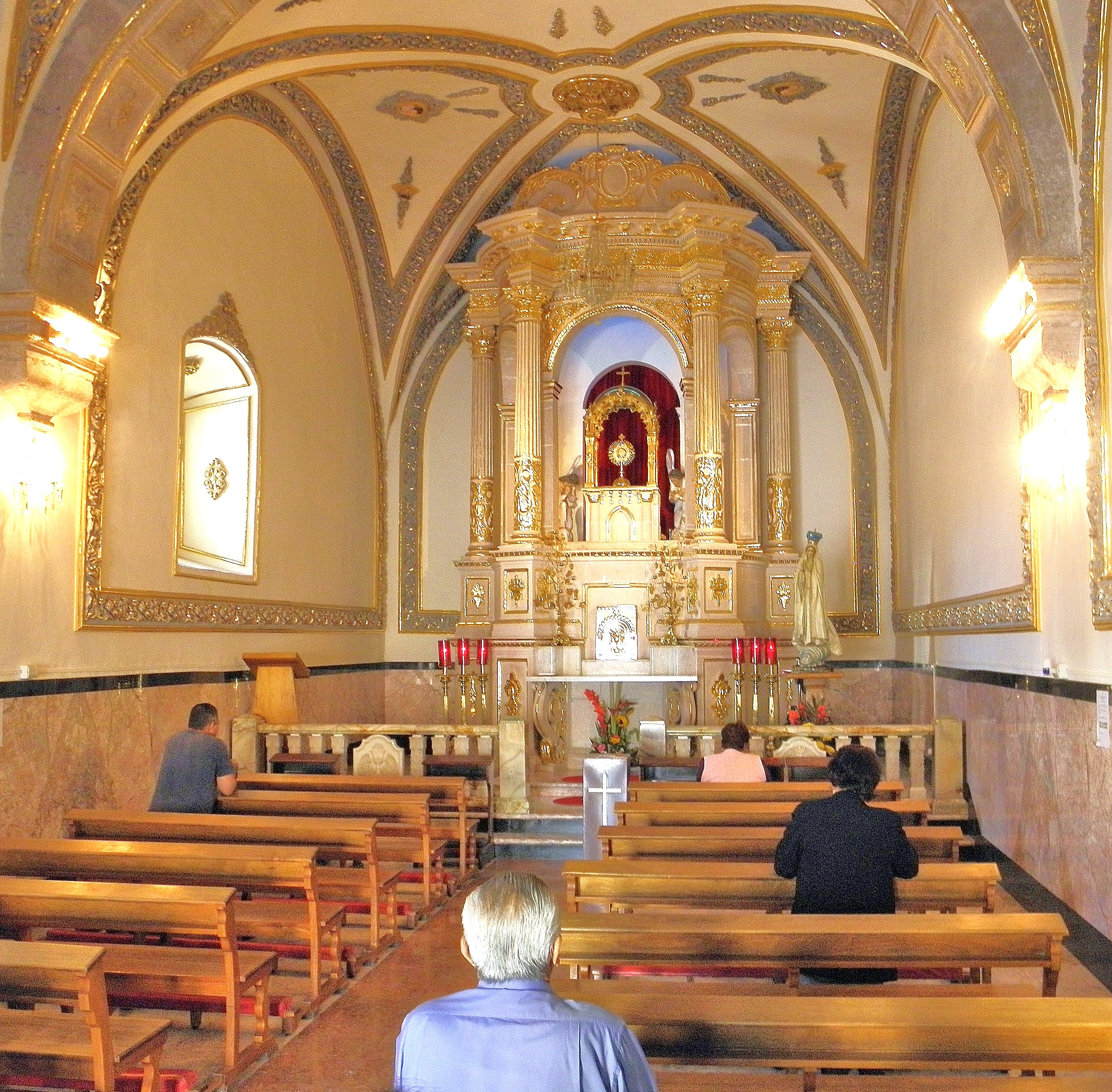 Blessed Sacrament Chapel, Chihuahua Metropolitan Cathedral, Chihuahua, Mexico after completion of two-year restoration, during which time the chapel was closed to the public.